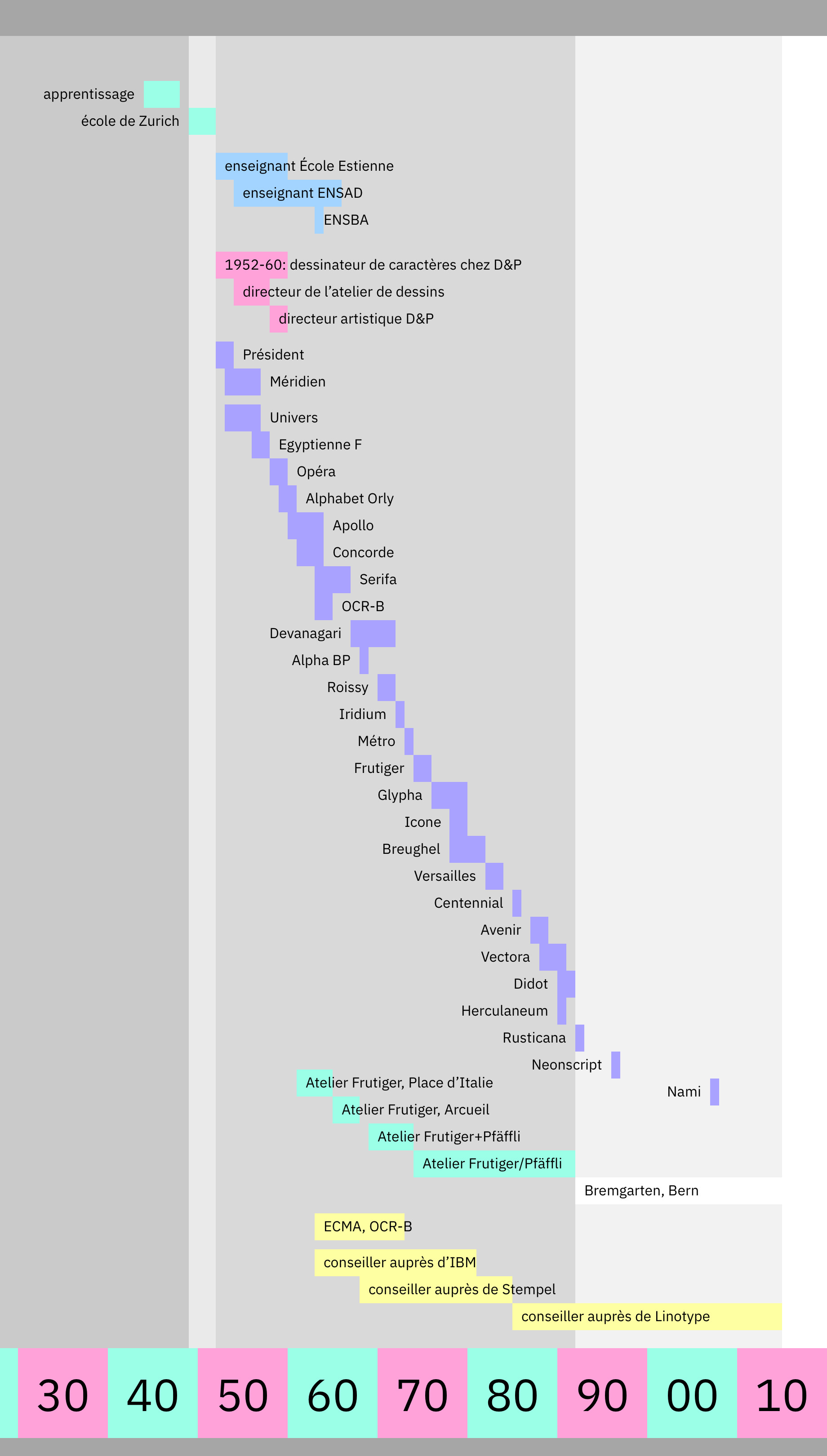 A visual timeline of Adrian Frutiger's work